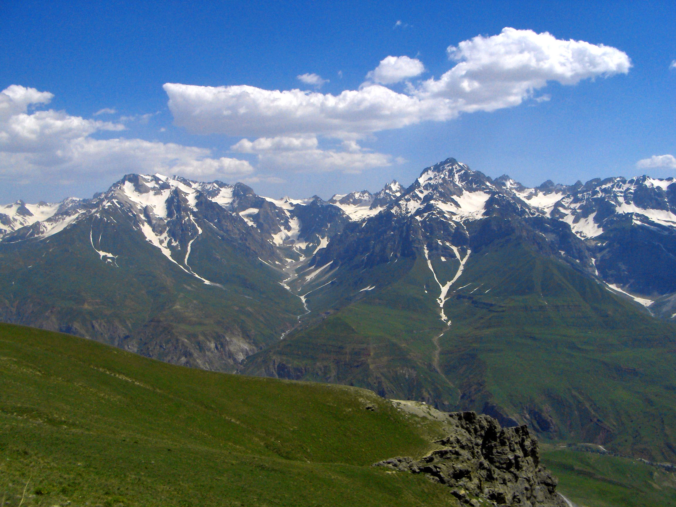 Tajik mountains (retouched)